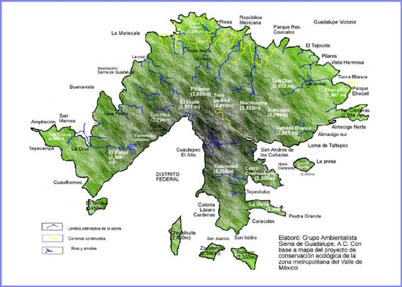 Map of the Sierra de Guadalupe in Mexico. File already present in Commons but a new file sharing the same name (File:Sierradeguadalupe.jpg) has erased it. It can be seen in the history of this file, version of the 20 May 2008.